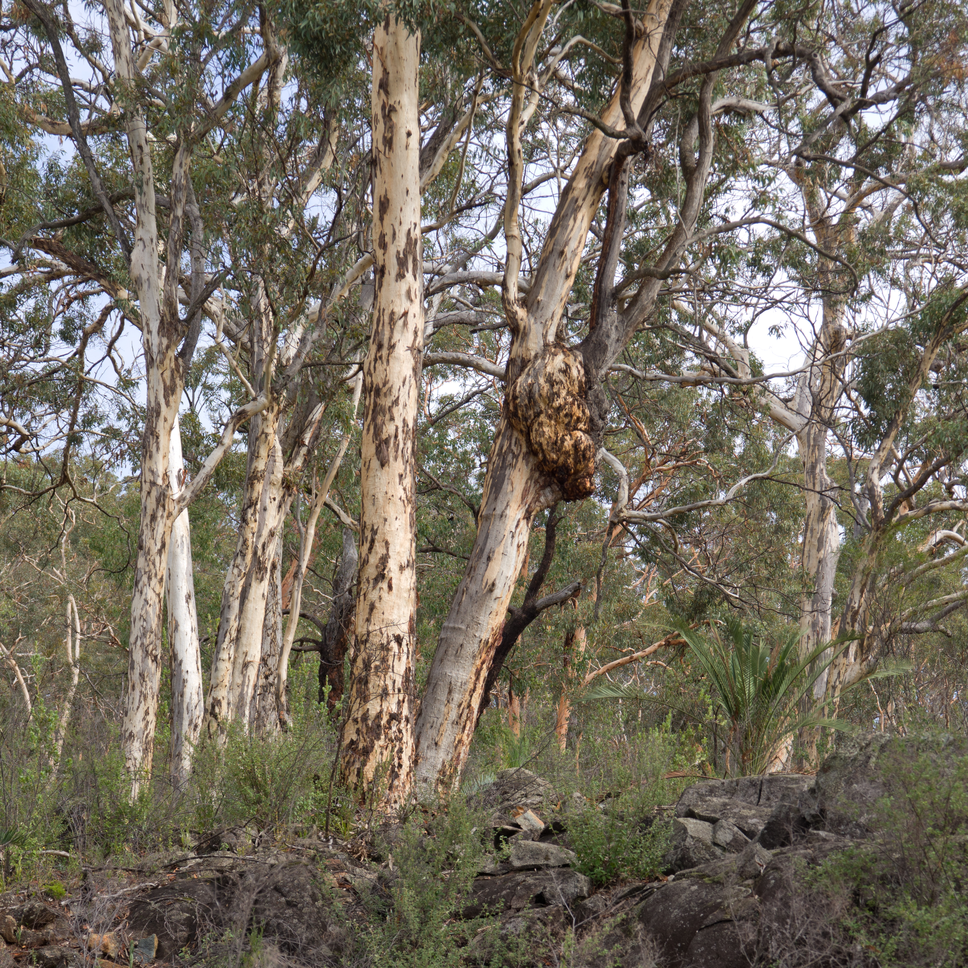 Avon Valley National Park Eucalyptus accedens(Powder-barked Wandoo)